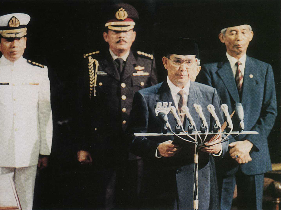 Vice President-elect Try Sutrisno takes the oath of office.